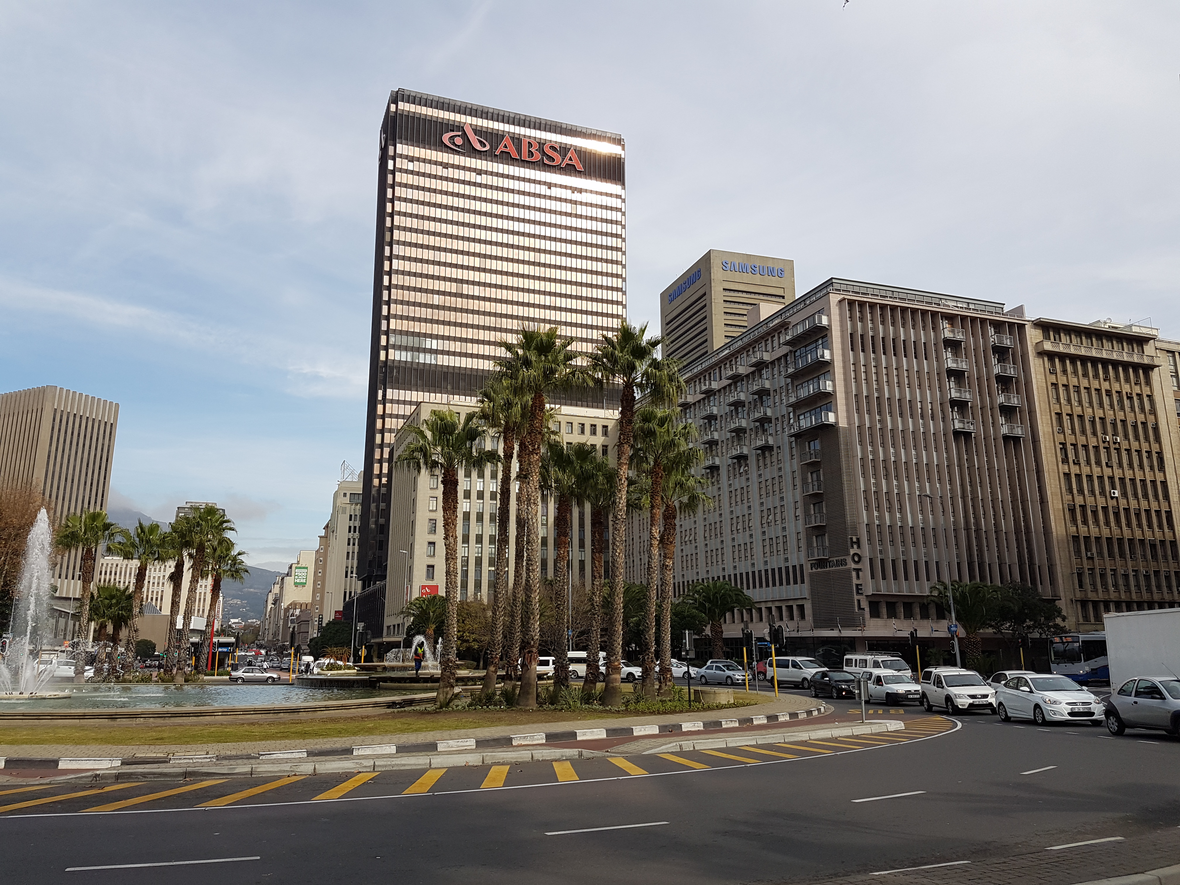 ABSA Centre in Cape Town, South Africa